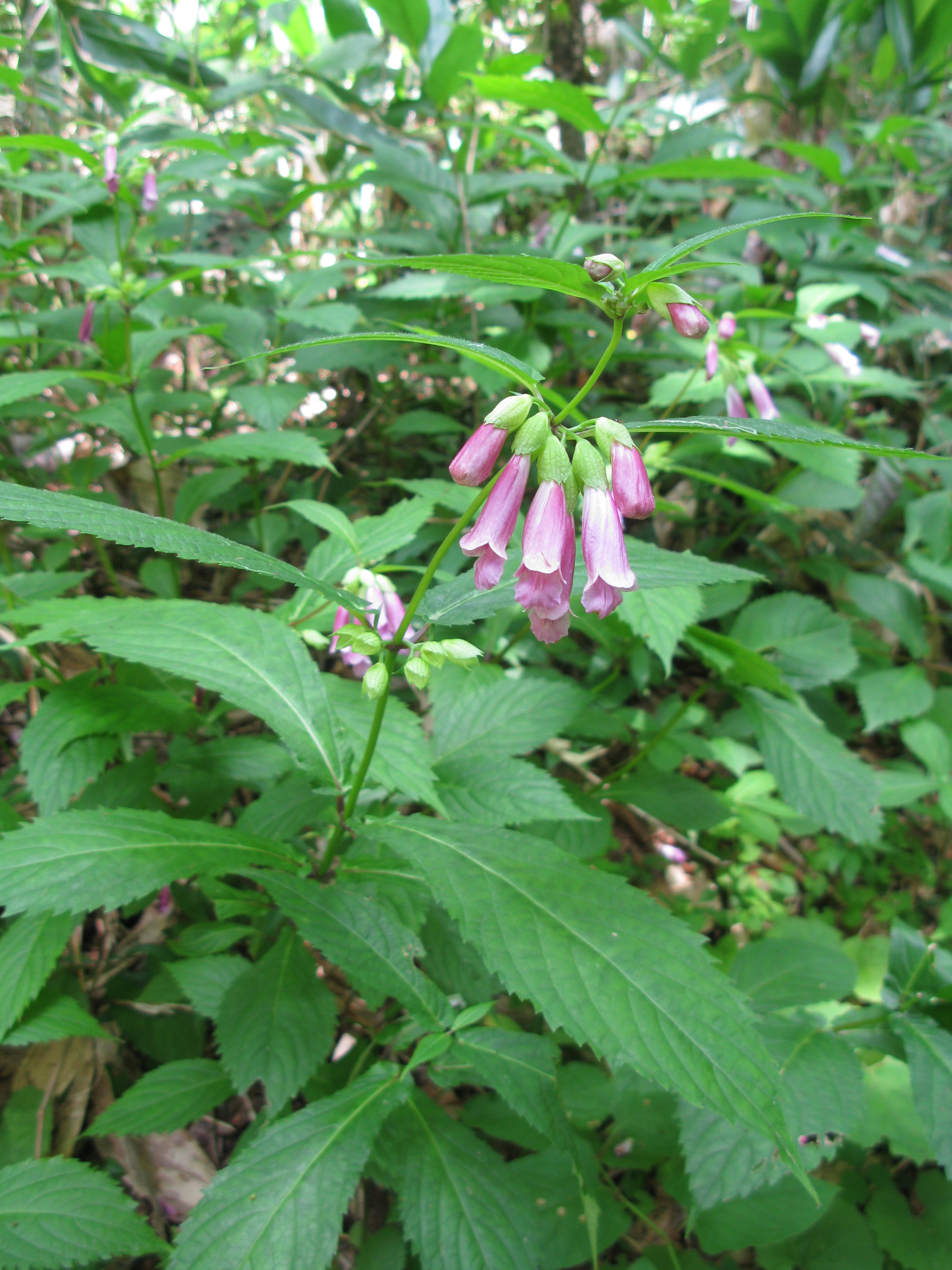 Chelonopsis moschata, Oze, Fukushima pref., Japan